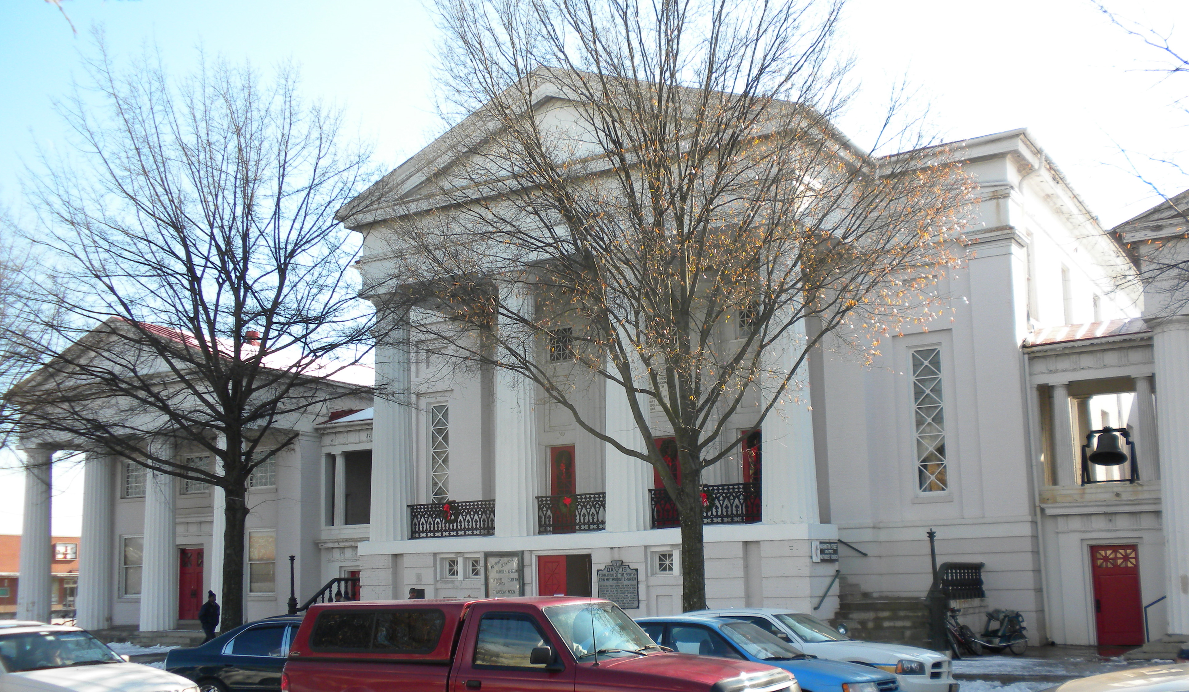 Union Street Methodist Church, Petersburg, Virginia. On NRHP. I donate this photo to the public domain.